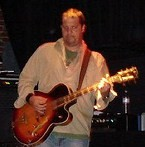 Andrew Copeland - photo cropped to remove other people from shot